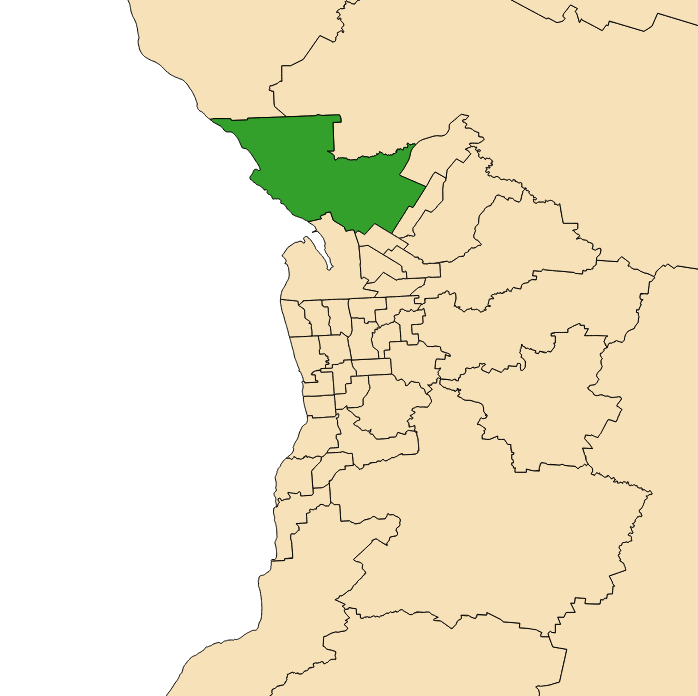 Electoral district 2018 boundaries shown in green